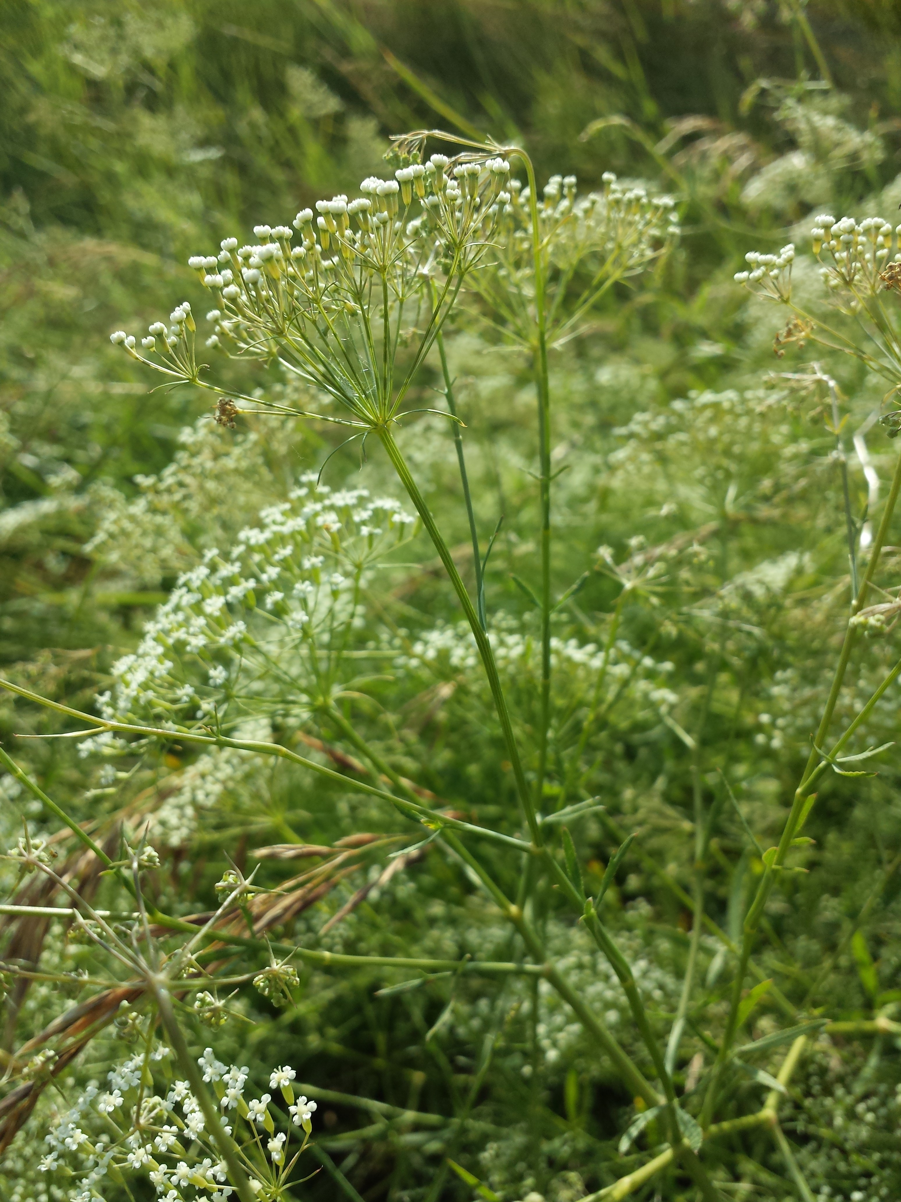 Florescence Taxon: Falcaria vulgaris (sensu Fischer et al. EfÖLS 2008) Location: abandoned railway line, Vienna-Donaustadt - ca. 160 m a.s.l. Habitat: embankment of a railway